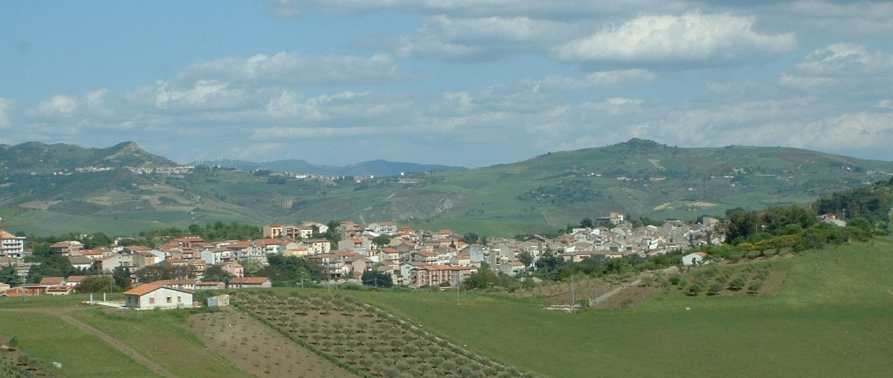 View of Castellana Sicula (PA).